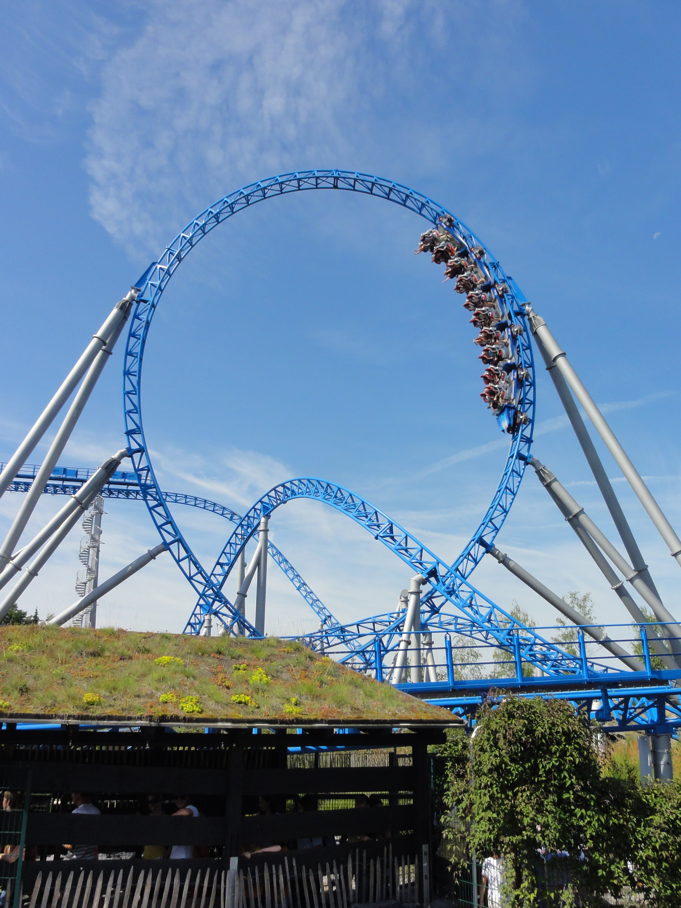 Blue Fire Megacoaster, Europa-Park, Rust, Baden-Württemberg, Germany.